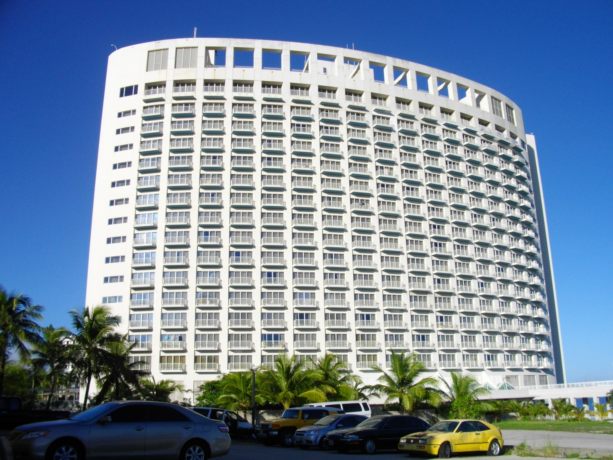 Westin Resort Guam